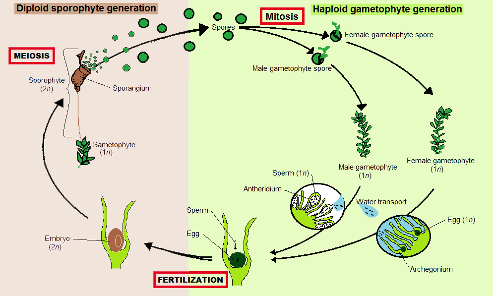 Bryophyte alternation of generations. A moss is used as the example. The haploid (gametophyte) structures are shown in green. The diploid (sporophyte) structures are shown in brown.